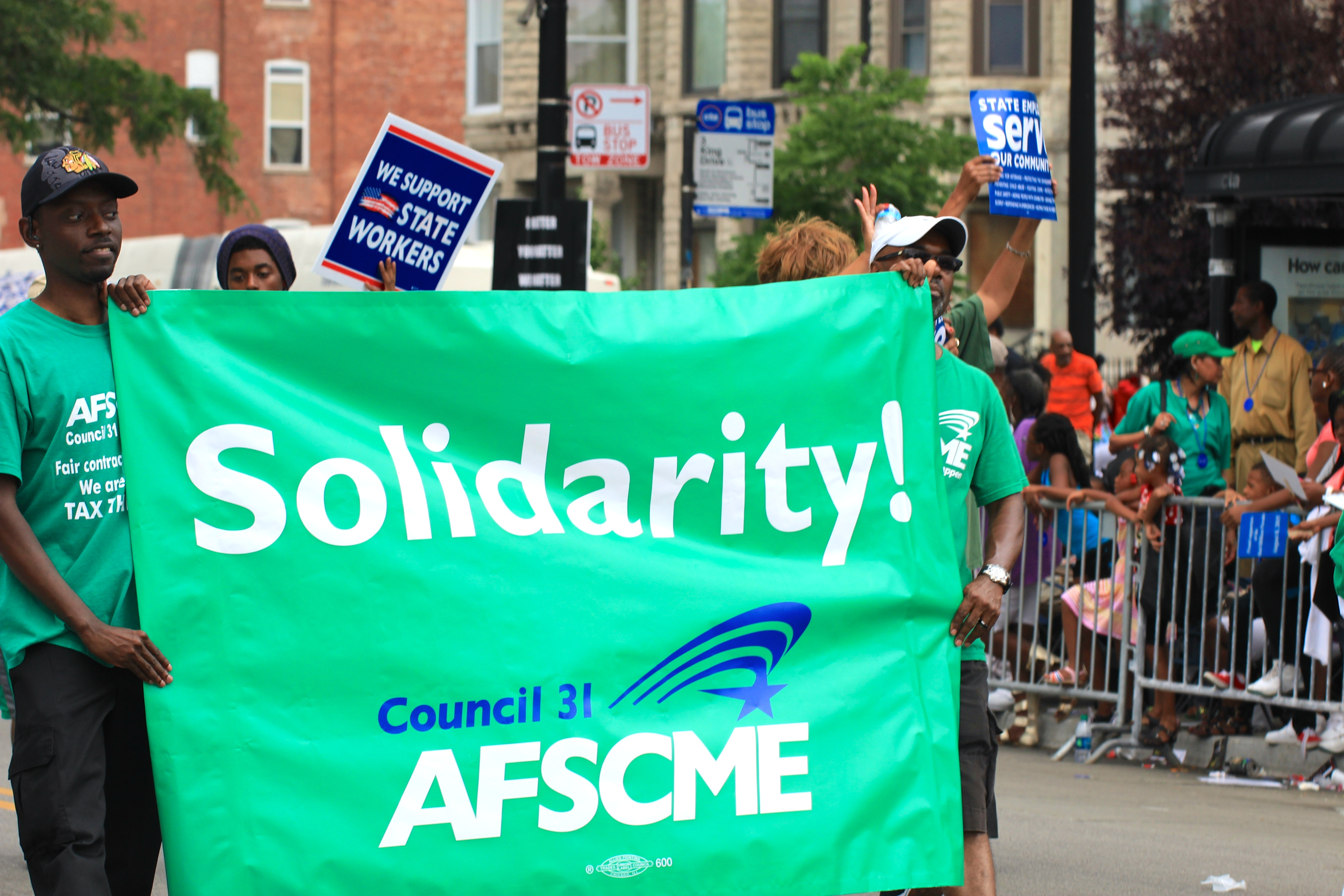 AFSMCE at the Bud Billiken Parade 2015